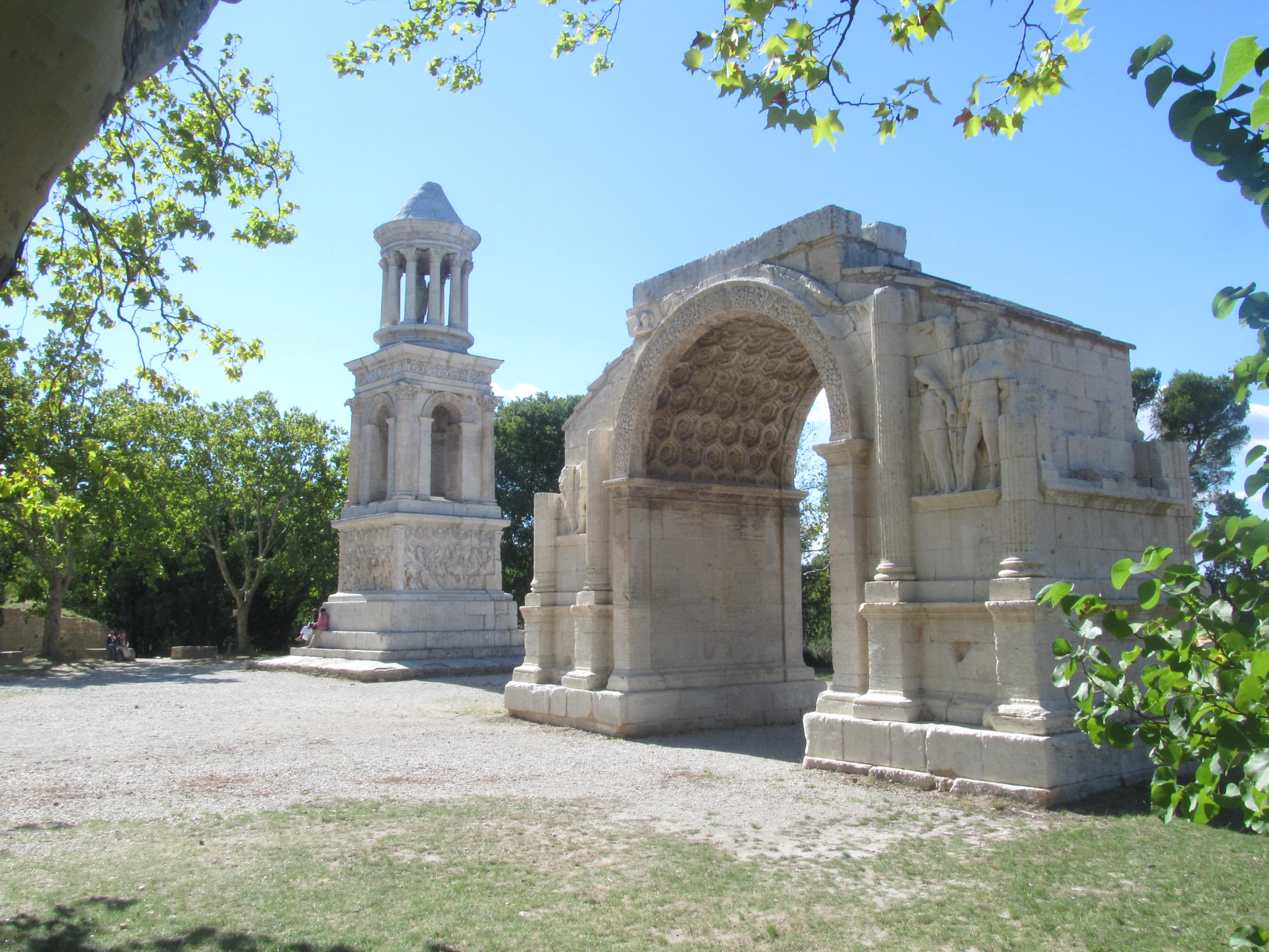 Glanum - Triumphal Arch and Mausoleum. L'arc de triomphe, qui solennisait l'entrée nord de la ville en évoquant la conquête de la Gaule par Rome, se trouve désormais de l'autre côté de la route. La franchissement du site par la route départementale rompt la continuité urbaine entre les Antiques et Glanum. Des études préliminaires de faisabilité ont proposé des bases de discussion pour l'élaboration d'un réaménagement complet des sites ayant pour objectif de rétablir l'homogénéité et l'intégrité historique et archéologique du site, au moins dans ses parties essentielles.